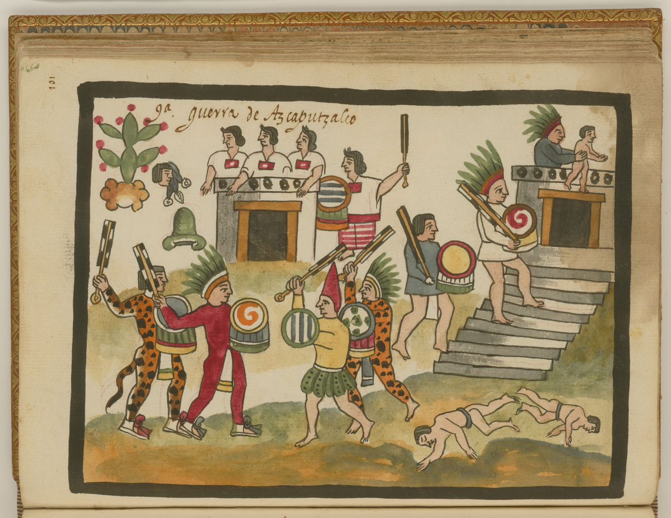 The Tovar Codex, attributed to the 16th-century Mexican Jesuit Juan de Tovar, contains detailed information about the rites and ceremonies of the Aztecs (also known as Mexica). The codex is illustrated with 51 full-page paintings in watercolor. Strongly influenced by pre-contact pictographic manuscripts, the paintings are of exceptional artistic quality. The manuscript is divided into three sections. The first section is a history of the travels of the Aztecs prior to the arrival of the Spanish. The second section, an illustrated history of the Aztecs, forms the main body of the manuscript. The third section contains the Tovar calendar. This illustration, from the second section, depicts the Battle of Azcapotzalco. Two groups of soldiers are shown fighting with war clubs and shields in the foreground of the image. At the far left is a jaguar warrior, one of the elite soldiers of the Aztec, with the glyph of a flowering cactus above him. Next to him is a figure representing Axayácatl (known from the glyph for water and hill above him). At the right is a figure in a conical hat and another jaguar warrior. Behind the soldiers is a dwelling with three women who make a sign of mercy with their hands. Another woman stands ready to defend them. At right an infant is being sacrificed by a priest at a temple while two victims lie dead on the ground. Azcapotzalco, capital city of Tecpanec on Lake Texcoco, was the site of a battle in 1430 between Itzcóatl, the fourth Aztec emperor (reigned 1427–40, allied with Netzahualcoyotl, a Texcocan lord) and Maxtla (son of a Tepanec lord to whom the Aztec had been subservient), who had had the previous emperor assassinated. Upon the defeat of Maxtla, the three cities of Tenochtitlan, Texcoco, and Tlacopan formed the new Aztec empire of the Triple Alliance. Axayácatl, Emperor of Mexico, 1449-1481; Aztecs; Battles; Codex; Indians of Mexico; Indigenous peoples; Kings and rulers; Mesoamerica; Priests; Sacrifice; Tovar Codex